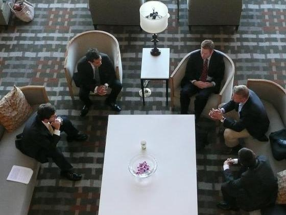 Photo of student/practitioner interaction at the 2009 Tulane Corporate Law Institute.